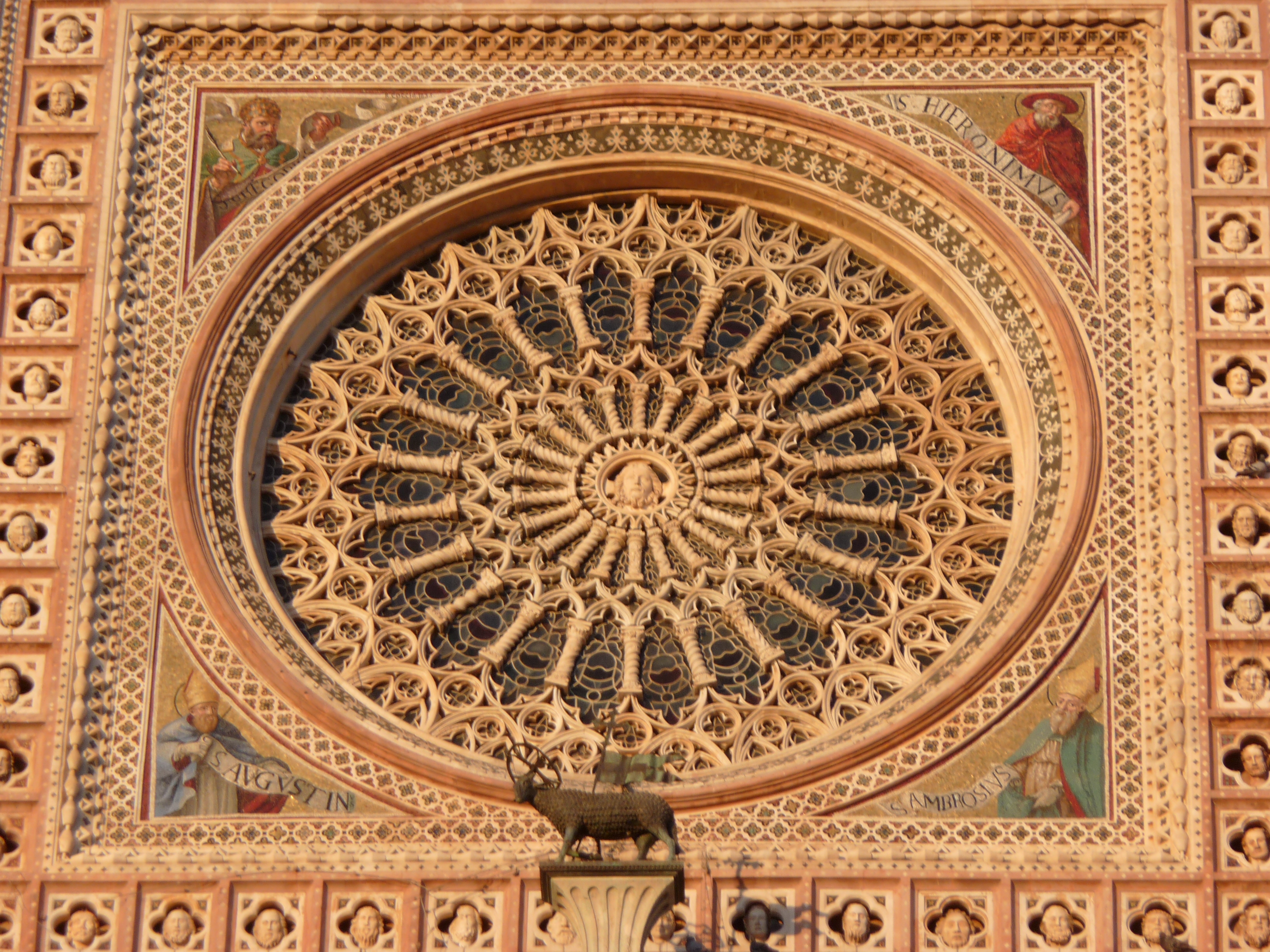 Facade of the Duomo of Orvieto, Italy.